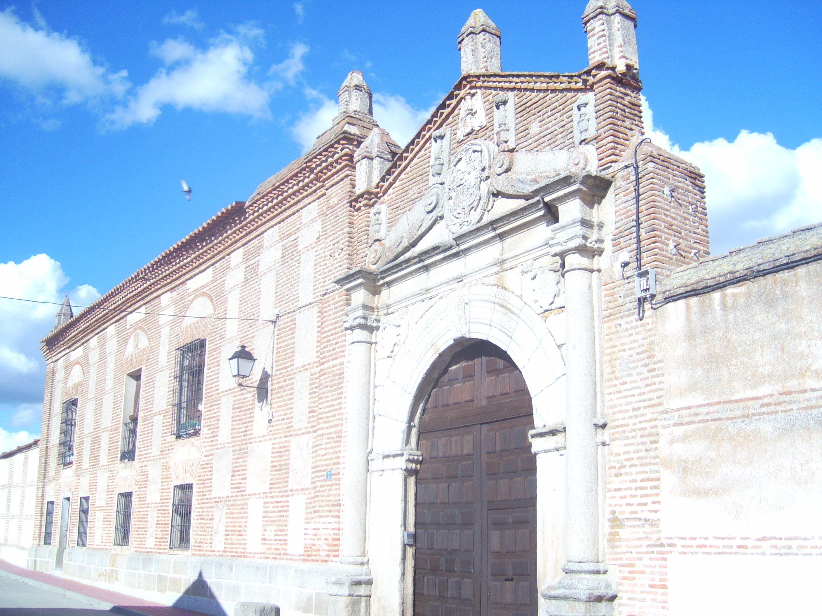 Palace in Adanero (Ávila)